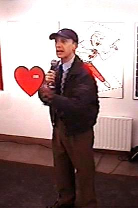 Polish-Swedish entertainer Michael Mansson as acting Master of Ceremonies for Cabaret Mingle Tingle by CabarEng, as released by image creator CabarEngPlace: Gallery So, Stockholm, Sweden